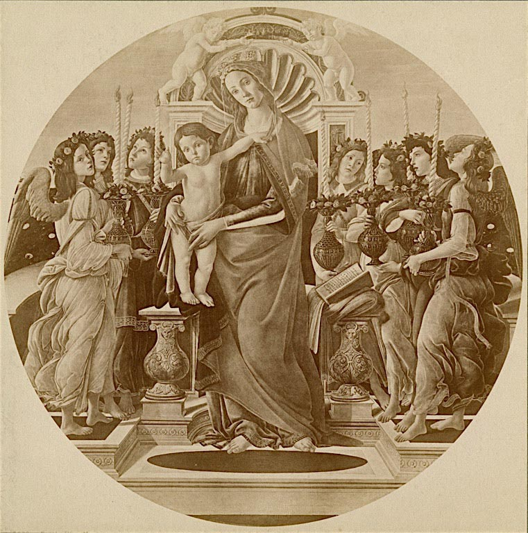 'Madonna and Child with Angels Carrying Candlesticks', by Sandro Botticelli (c. 1485/1490), a painting possibly destroyed in the Friedrichshain flak tower fire in Berlin, at the end of the Second World War (May 1945). The painting belonged to the collections of the Kaiser-Friedrich-Museum, now the Bode-Museum of Berlin.